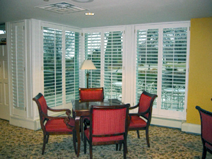 Interior movable louver plantation shutters with open louvers.